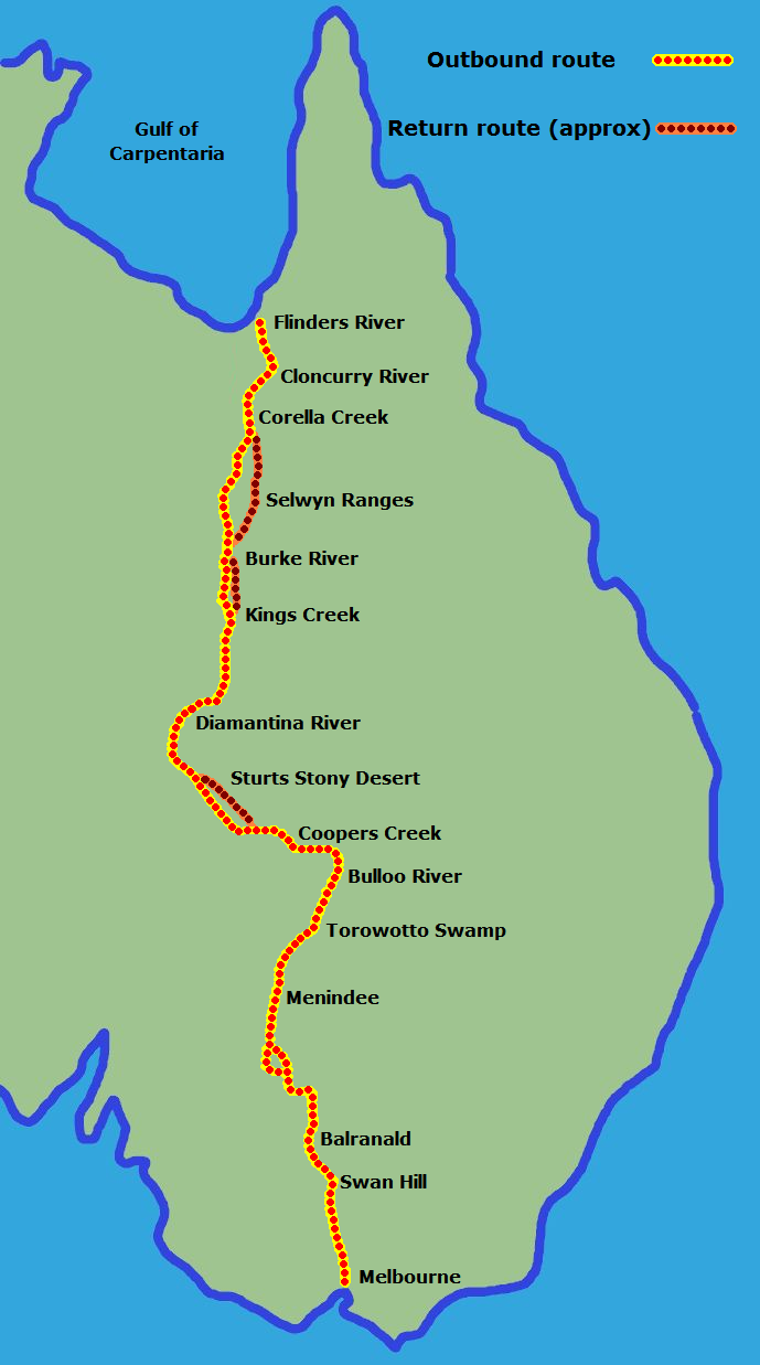 I modified this image file from the original uploaded to Wikipedia to more accurately reflect the track of the expedition. Rocketfrog 07:37, 12 August 2006 (UTC)